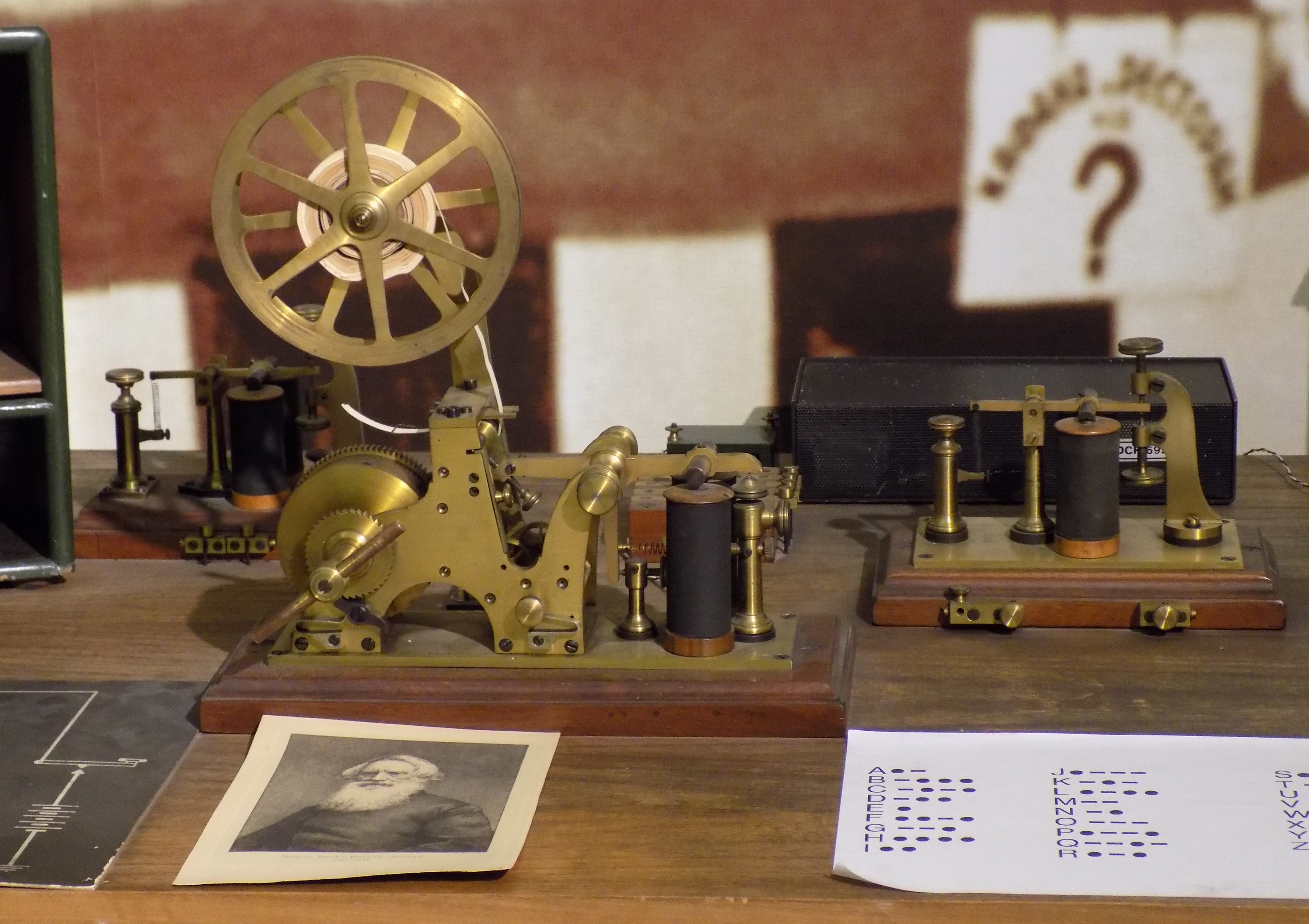 Morse's telegraph station (PTT museum in Belgrade, Serbia)